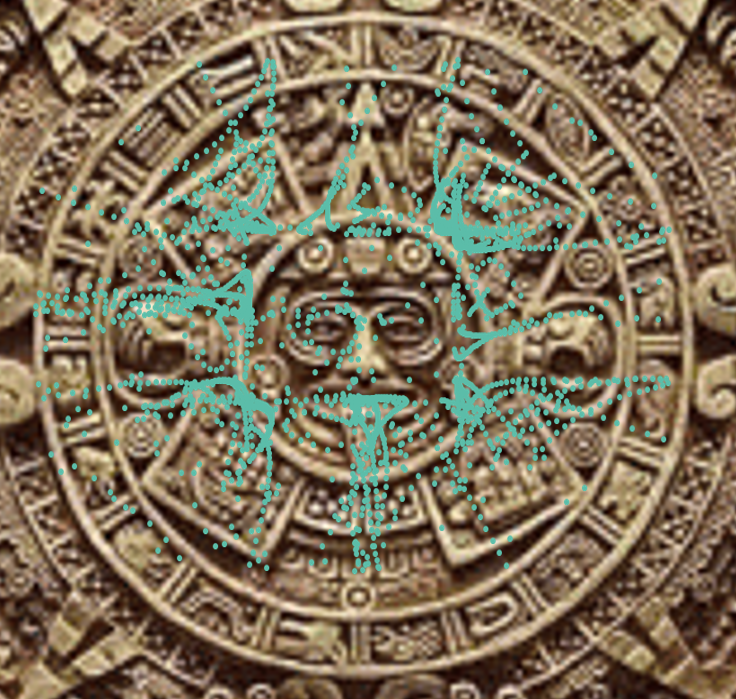 The design of the center portion of the Aztec Sun Stone is based on a mathematical equation which has been plotted in green